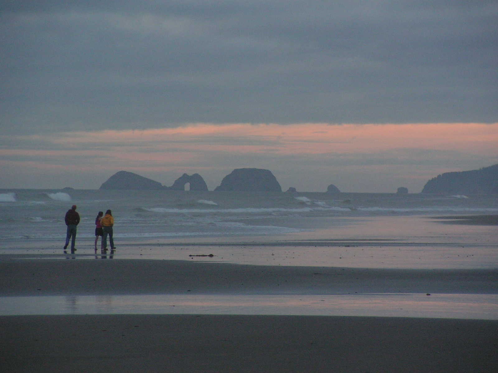 Evening at Cape Lookout, Oregon